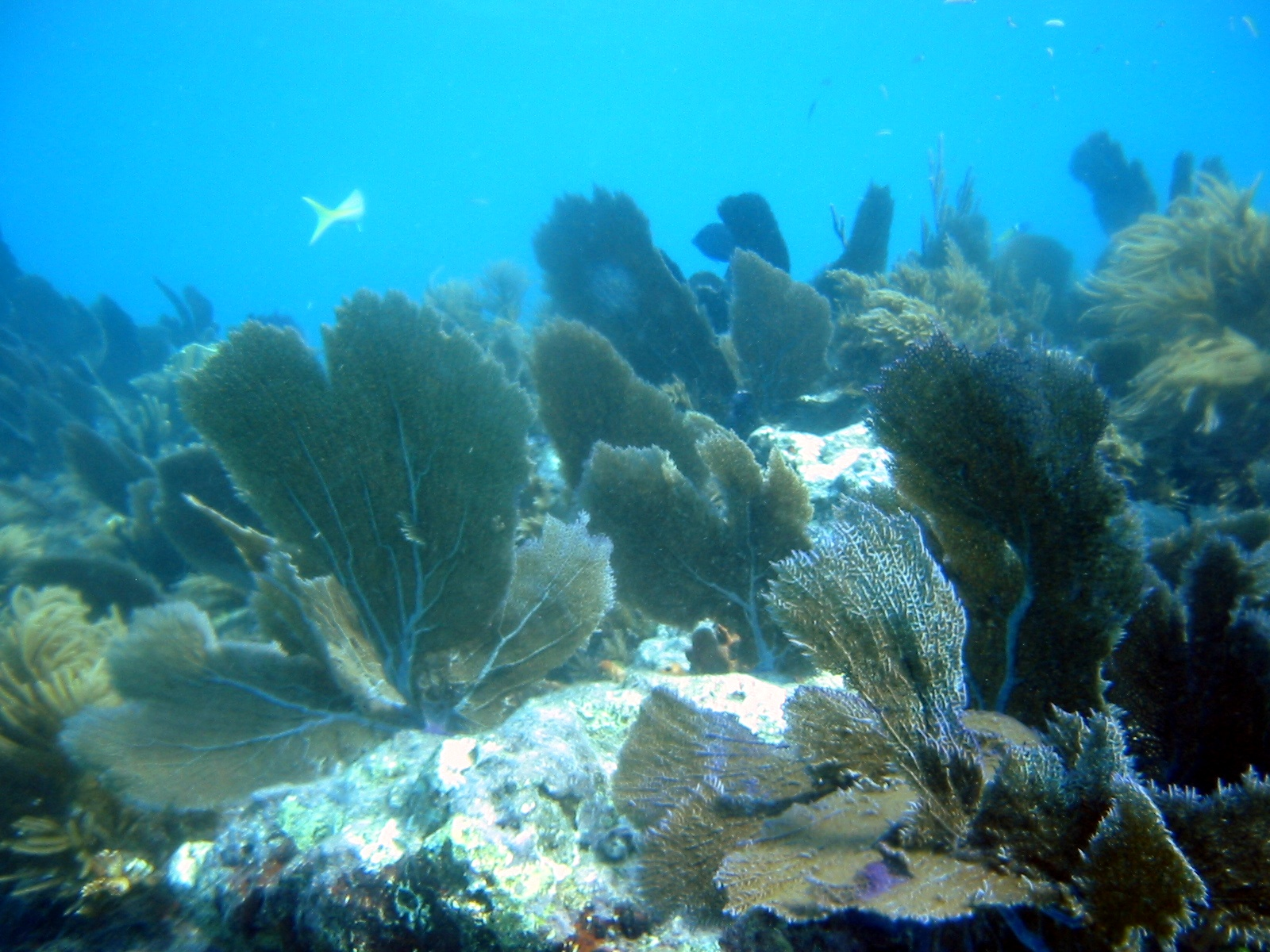 Coral reefs at John Pennekamp Coral Reef State Park just off of Key Largo, Florida.